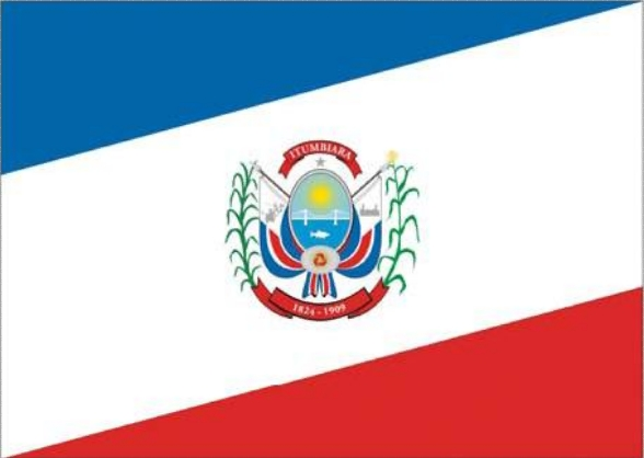 The new official flag of Itumbiara.